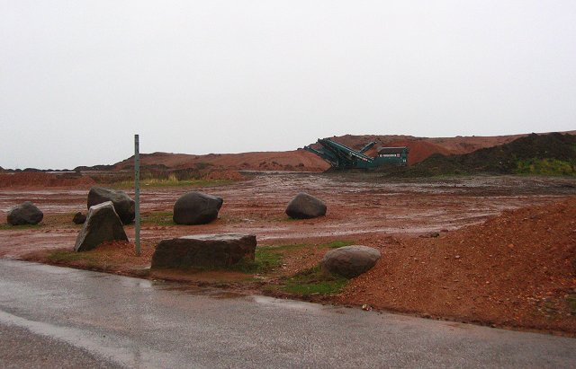 The remains of a shale bing, Drumshoreland, near Pumpherston. This part of Scotland once had many shale bings, the result of a century of intensive oil shale mining. Most have now disappeared, quarried for road-building and construction throughout central Scotland.